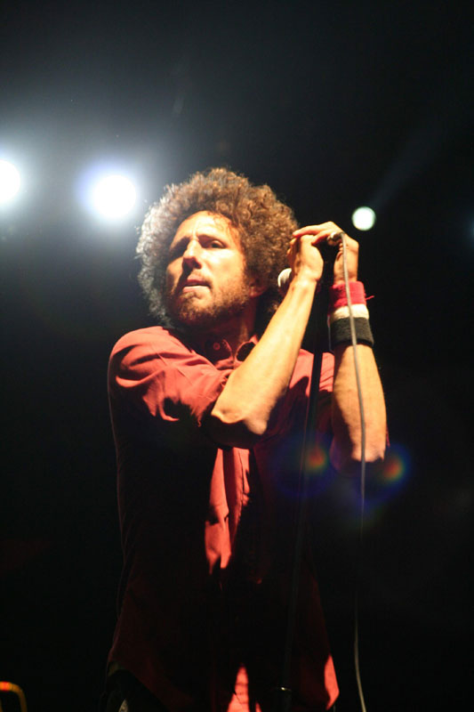 Rage Against The Machine, Coachella 2007, Photo by Paul Familetti